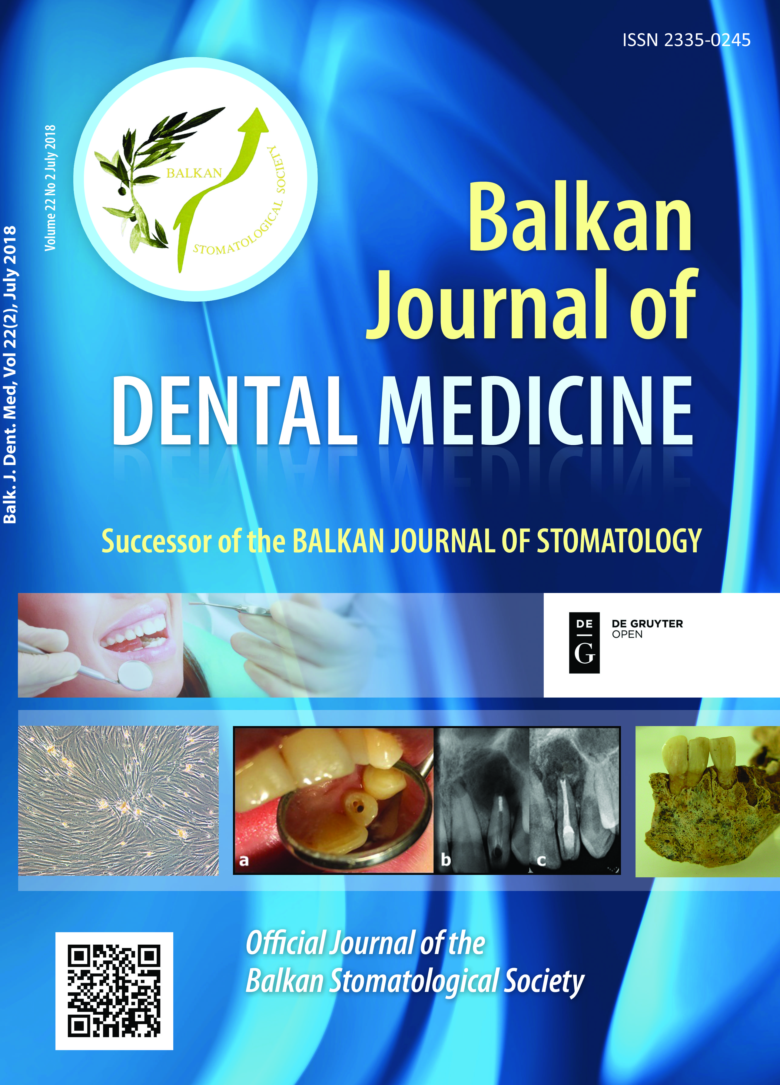 Cover of scientific journal Balkan Journal of Dental Medicine